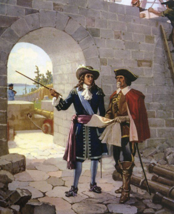 Fort Frontenac/La Salle Inspecting the Construction of Fort at Cataraqui (Kingston) 1676. Color print on woven paper.